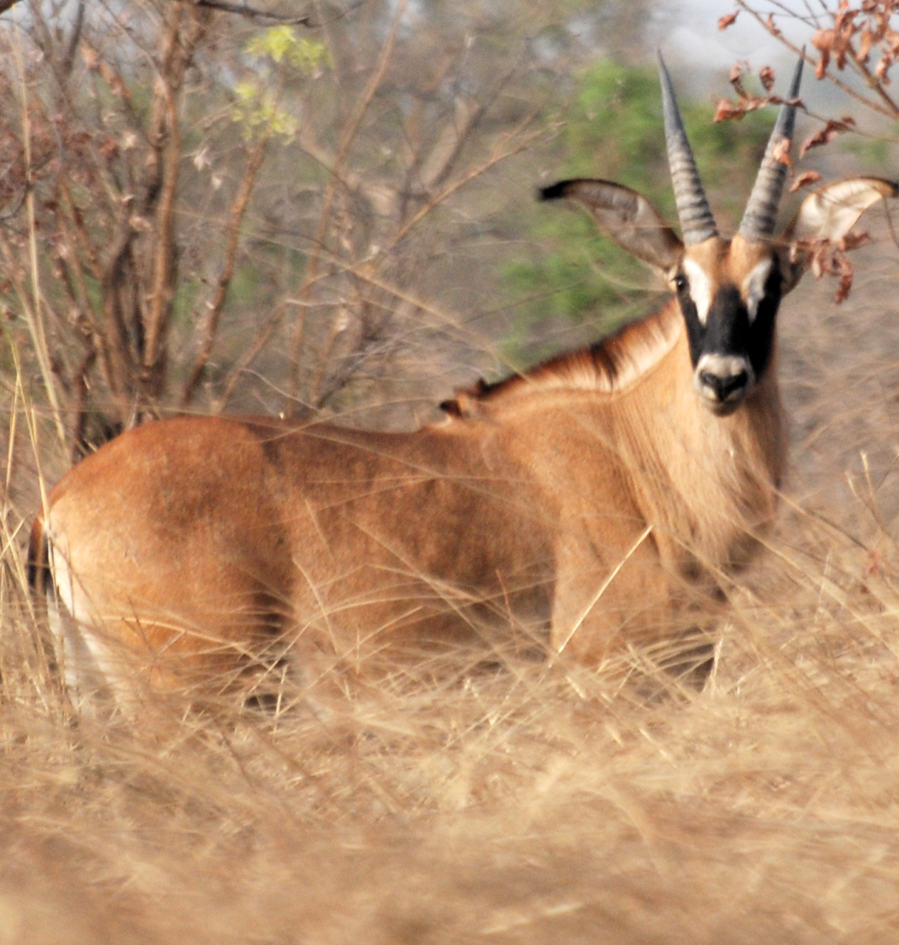 Hippotragus equinus in the Pendjari NP, Benin, West Africa